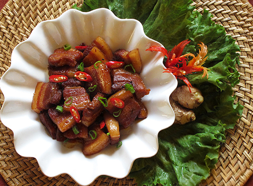 Braised pork belly with chilies